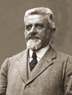 Józef Mikułowski-Pomorski, Polish scientist, Minister in Polish Government in 1918